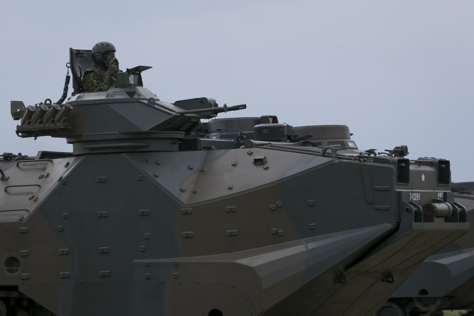 Service members with the Japanese Amphibious Rapid Deployment Brigade show their capabilities during the ARDB’s unit-activation ceremony at Camp Ainoura, Japan, April 7, 2018. The 31st Marine Expeditionary Unit supported the ceremony with a fast rope demonstration from a CH-53E Super Stallion. As the Marine Corps’ only continuously forward-deployed MEU, the 31st MEU provides a flexible force ready to perform a wide range of military operations throughout the Indo-Pacific region.